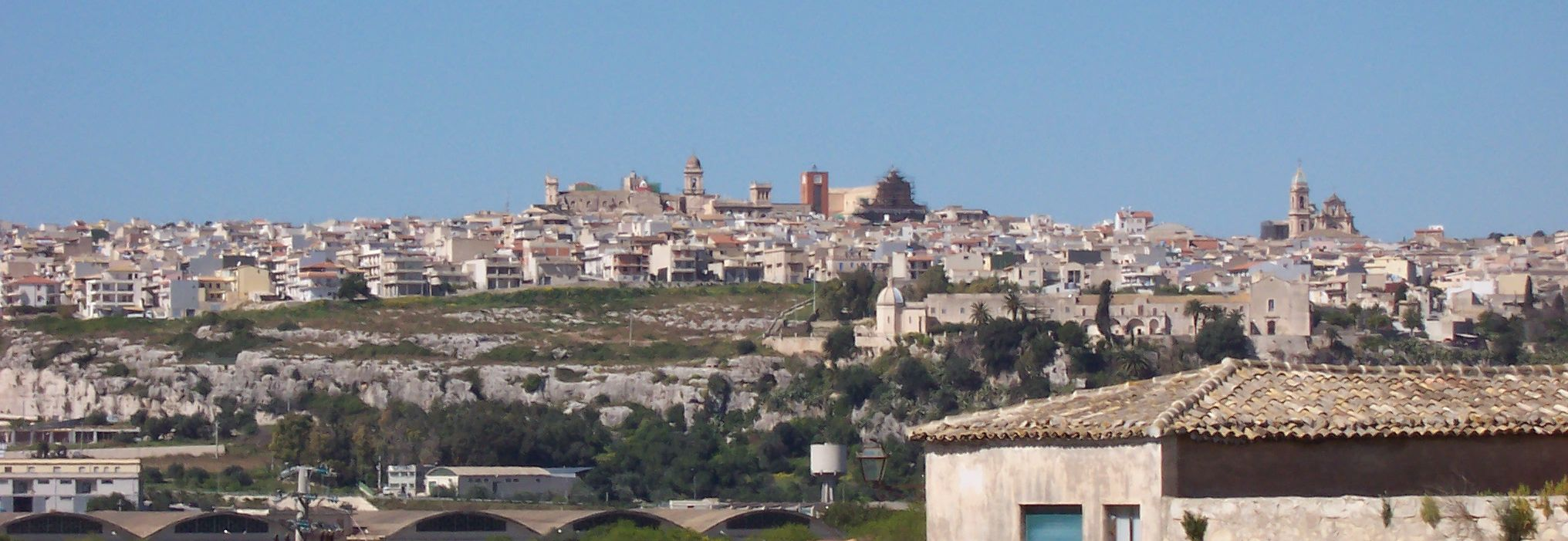 General view of the town of Ispica, province of Ragusa, Sicily, Italy